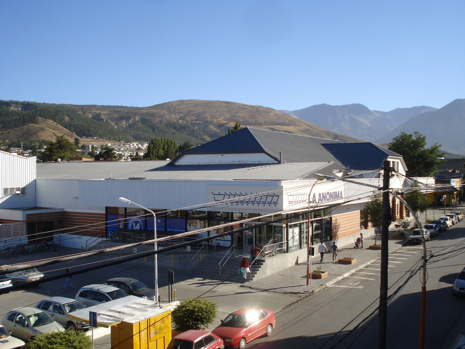 Argentinian supermarket La Anónima, in Esquel, Patagonia.